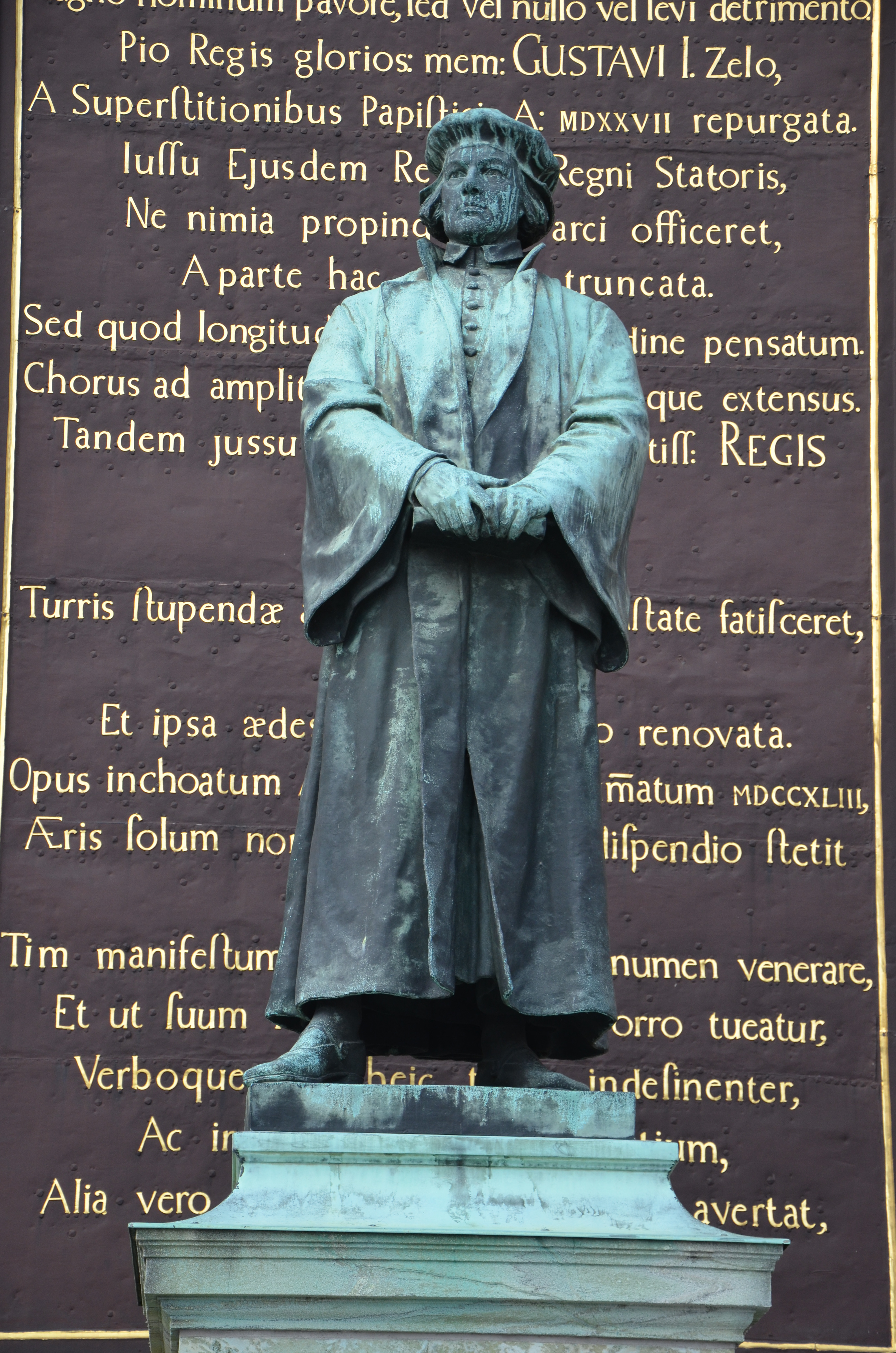 Theodor Lundbergs Olaus Petri, utanför västra fasaden, Storkyrkan i Stockholm